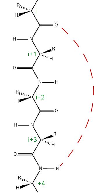 Hydrogen liaison in alpha protein structure.